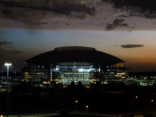 Photograph of Cowboys Stadium in Arlington, TX